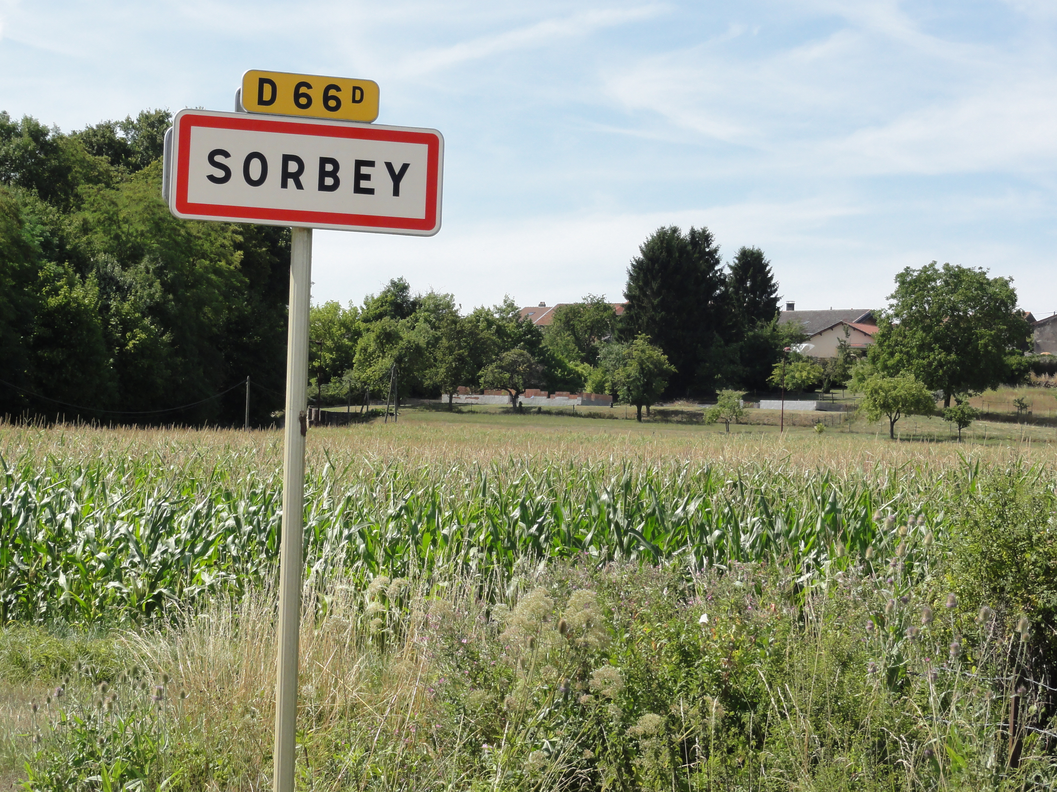 Sorbey (Meuse) city limit sign